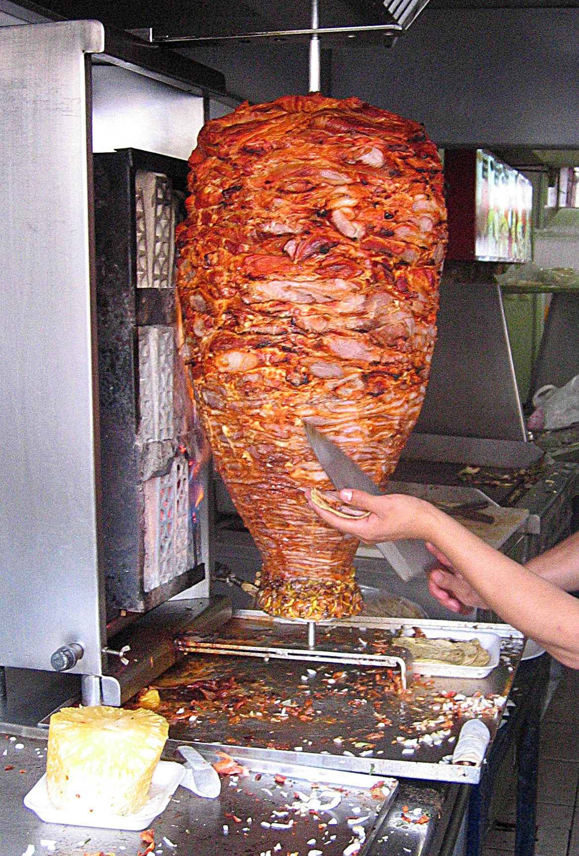 Tacos al Pastor being cut from the spit (uncropped version visible on Flickr)